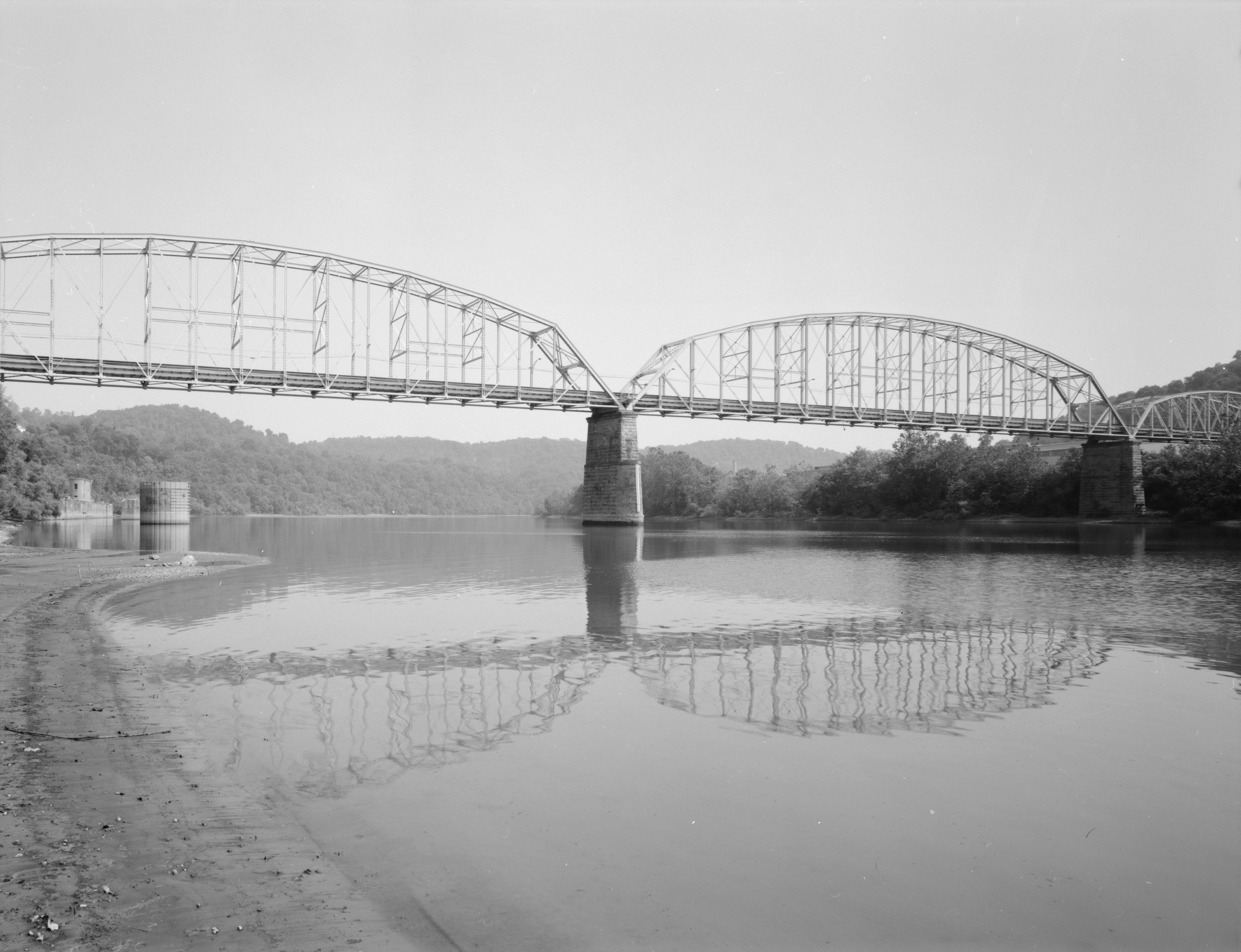 Southern (upstream) side of the Charleroi-Monessen Bridge, which formerly carried Lock Street over the Monongahela River between North Charleroi and Monessen in the U.S. state of Pennsylvania. Built in 1906, it was listed on the National Register of Historic Places in 1988; although destroyed, it has not yet been delisted.